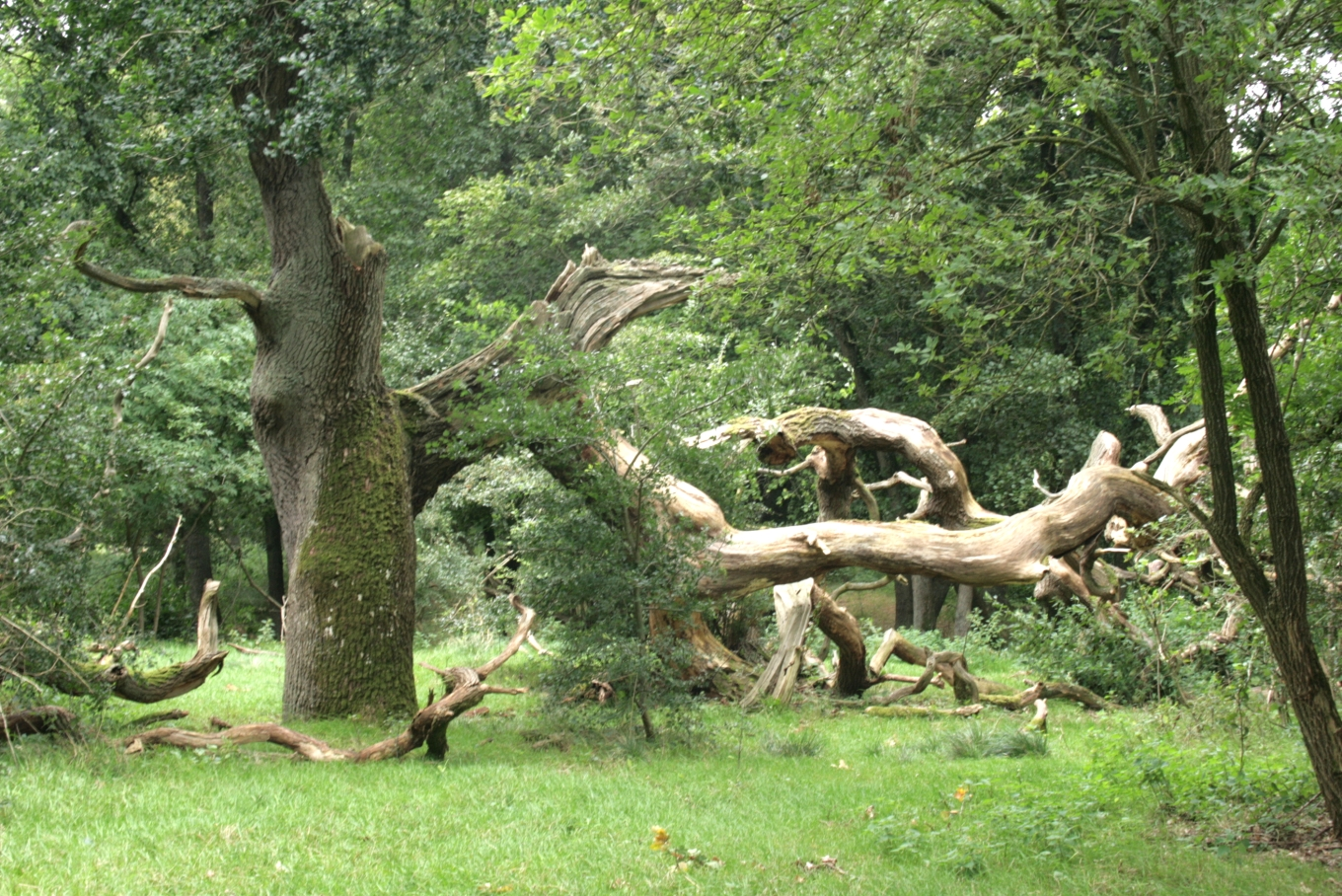 Langå Egeskov, at Langå, Jutland, Denmark: Dying oak trees. This oak forest is the only one in Denmark with an ongoing cattle-pasture. It is owned by "Danmarks Naturfredningsfond" (a foundation under the Danish society for Nature Conservation).